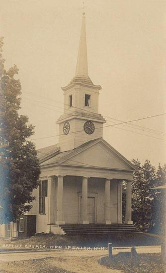 Baptist Church, New Ipswich, NH; from a c. 1912 postcard.